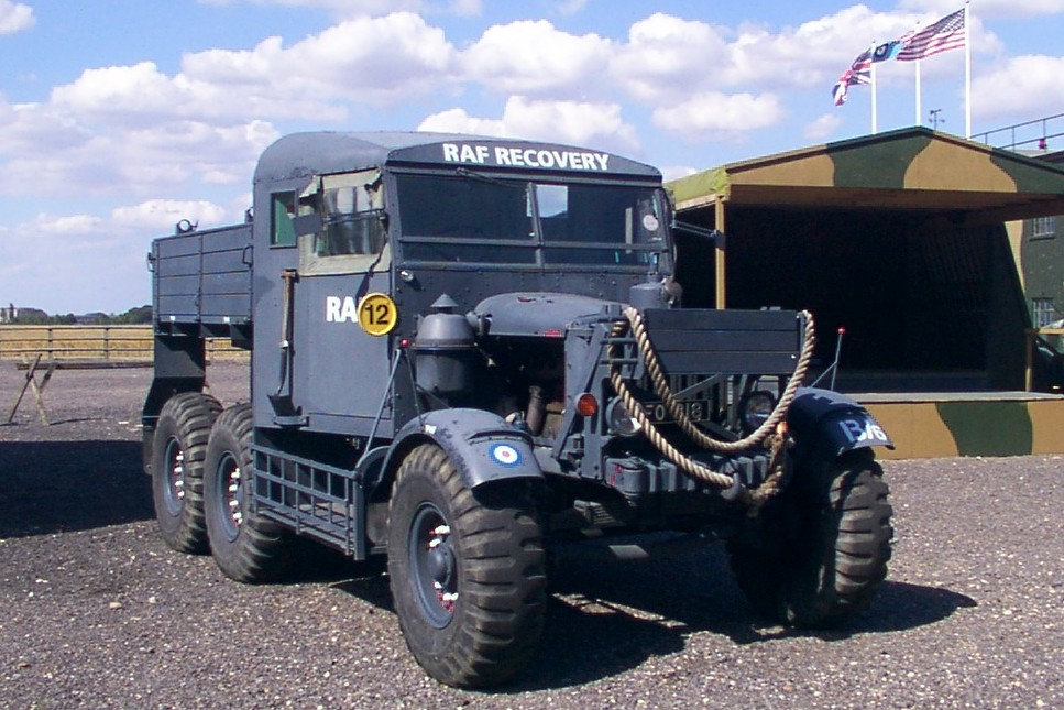 YFO818 is a 1944 Scammell Pioneer SV2S Heavy Breakdown vehicle on display at the former RAF Twinwood Farm in 2002